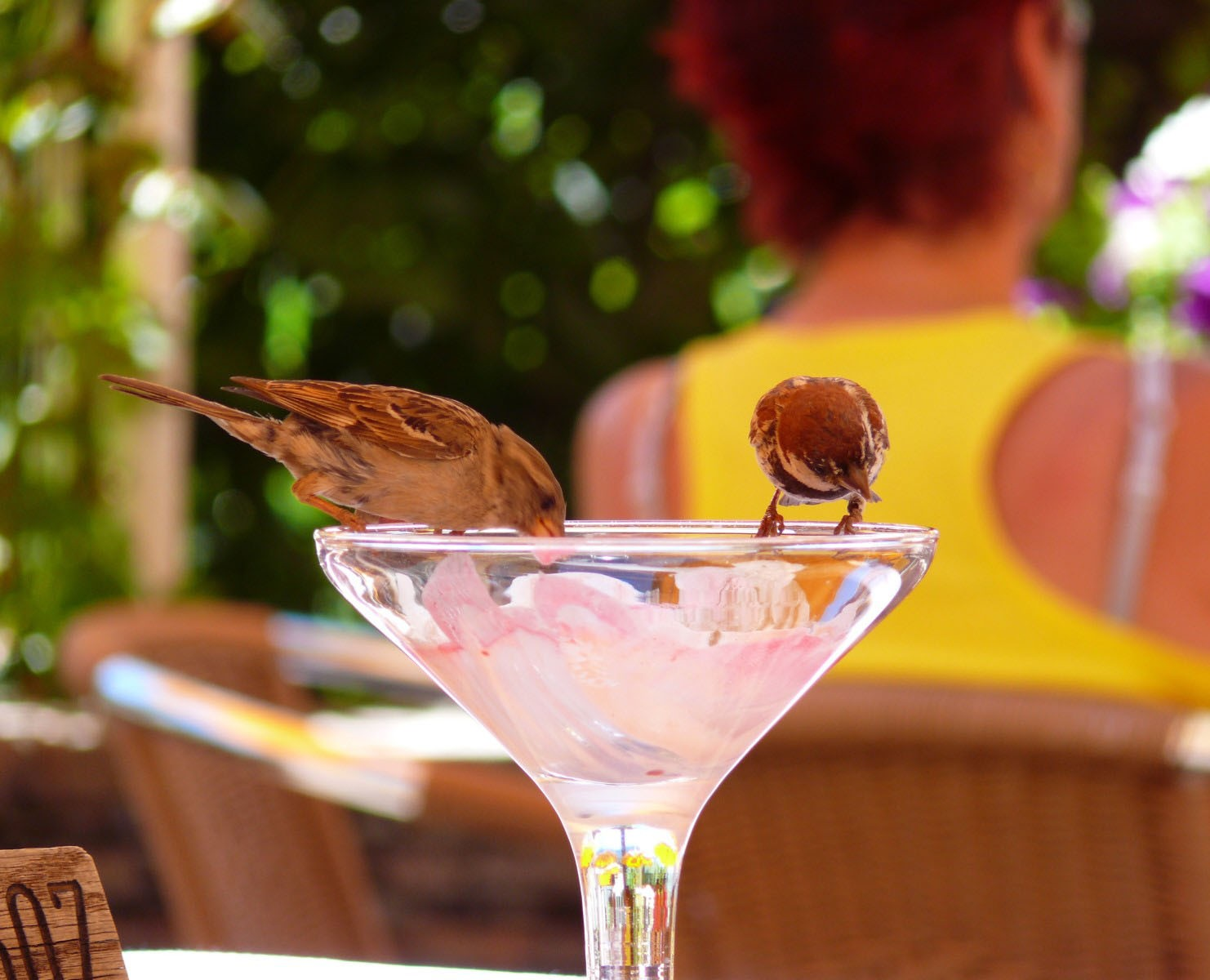 Italian Sparrows in Bolzano, northern Italy